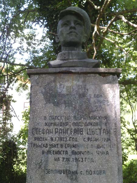 Паметник на Стефан Рангелов